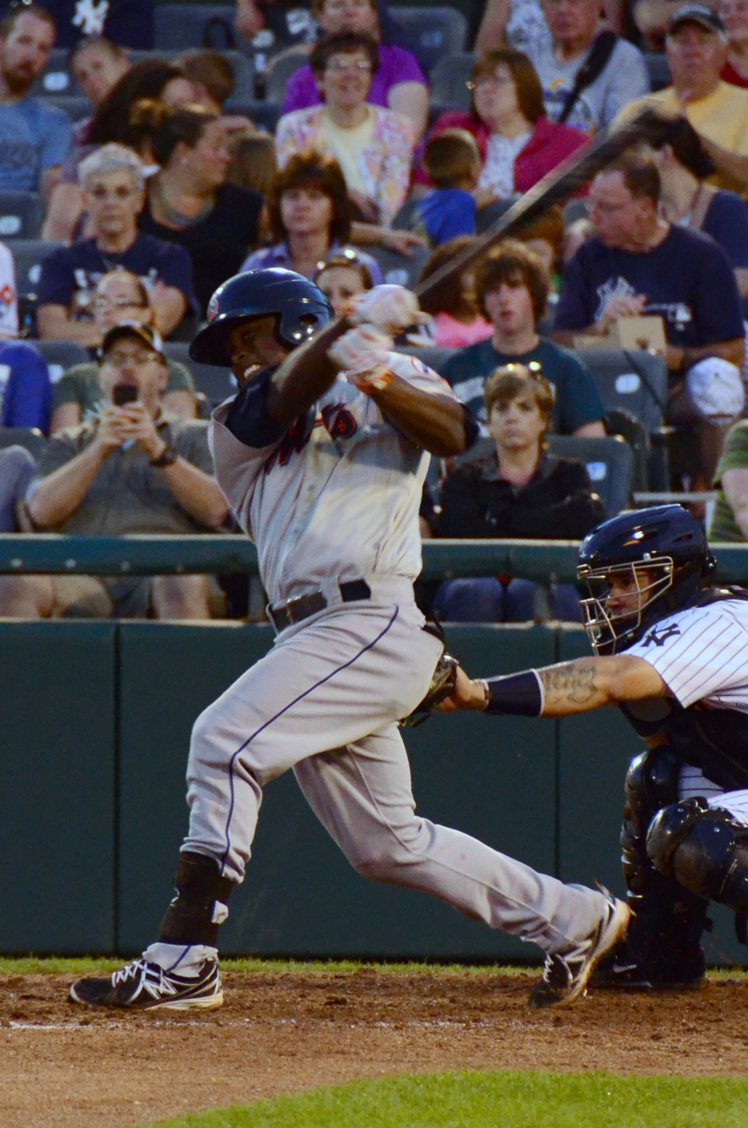 Dilson Herrera's Home Run Swing